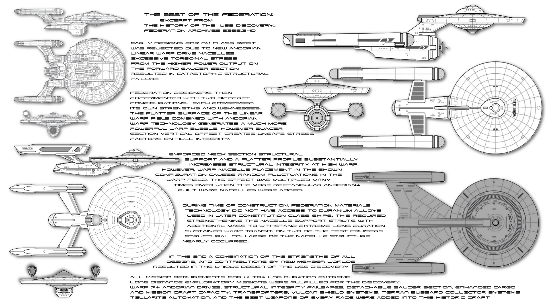 Speculation about the federation's deveopment program which resulted in the creation of the USS Discovery.